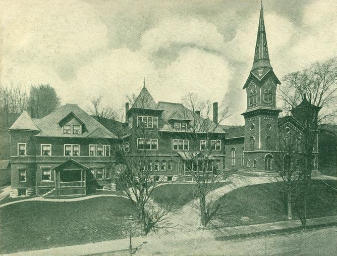 Congregational Church, Club House and Parish House, Adams, MA; from a c. 1905 postcard published by the Souvenir Post Card Company.